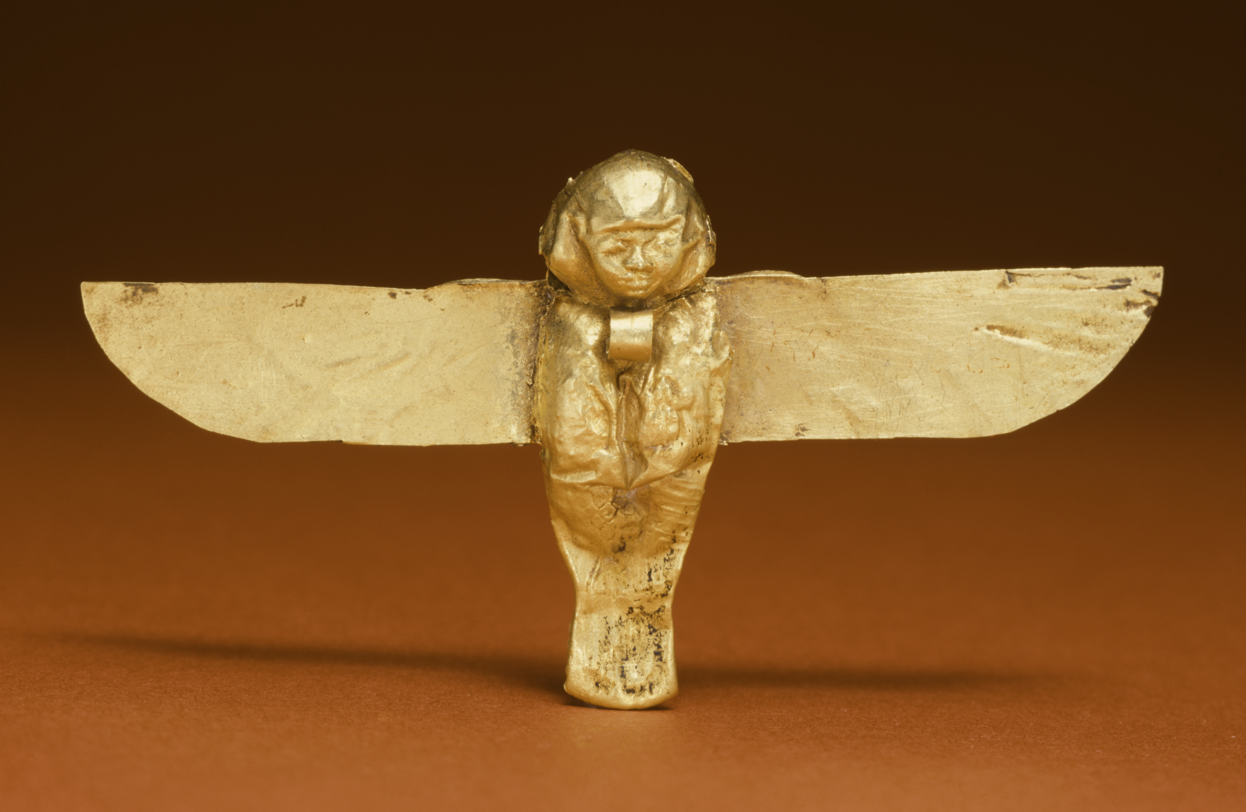 The "ba," depicted as a human-headed falcon, was a spiritual aspect of one's personality.